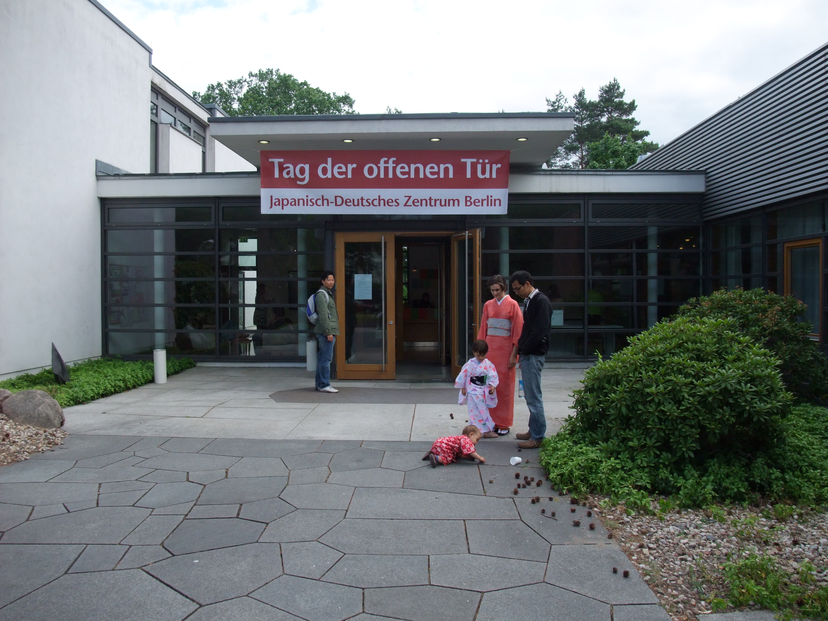 Japanese-German Center Berlin, Germany. Entrance at the Open Day 2010